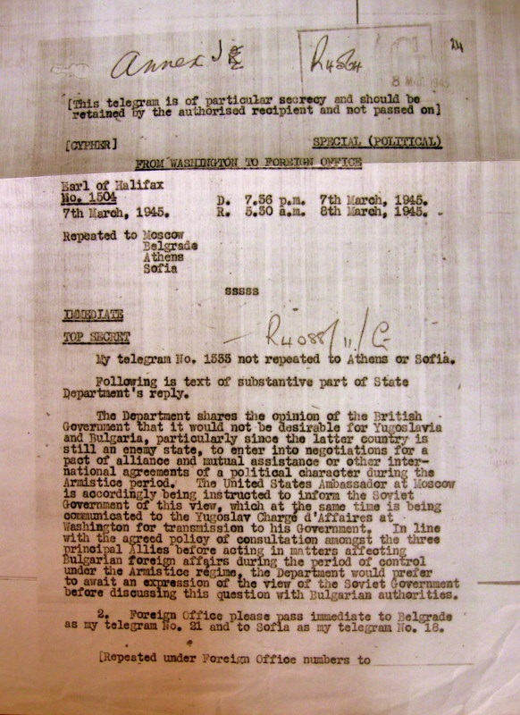 The telegram of the State Department of the USA which shares the opinion of the British Government that "it would not be desirable for Yugoslavia and Bulgaria to enter into negotiations for a union". (March 1945) This media file is produced by Wikipedian in Residence in Category:Wikipedian in Residence at DARM in 2016.